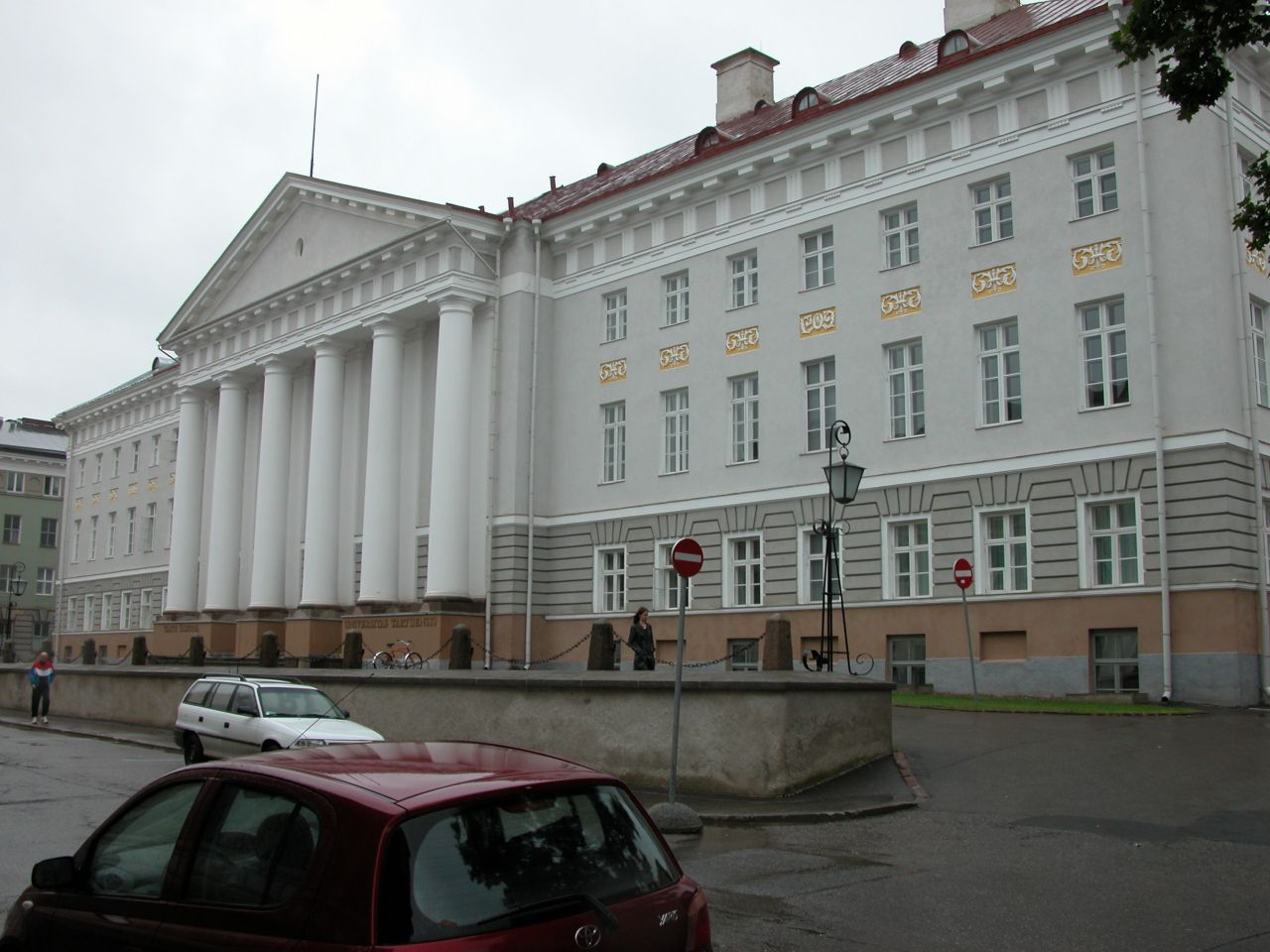 University of Tartu (german: Dorpat), Estonia